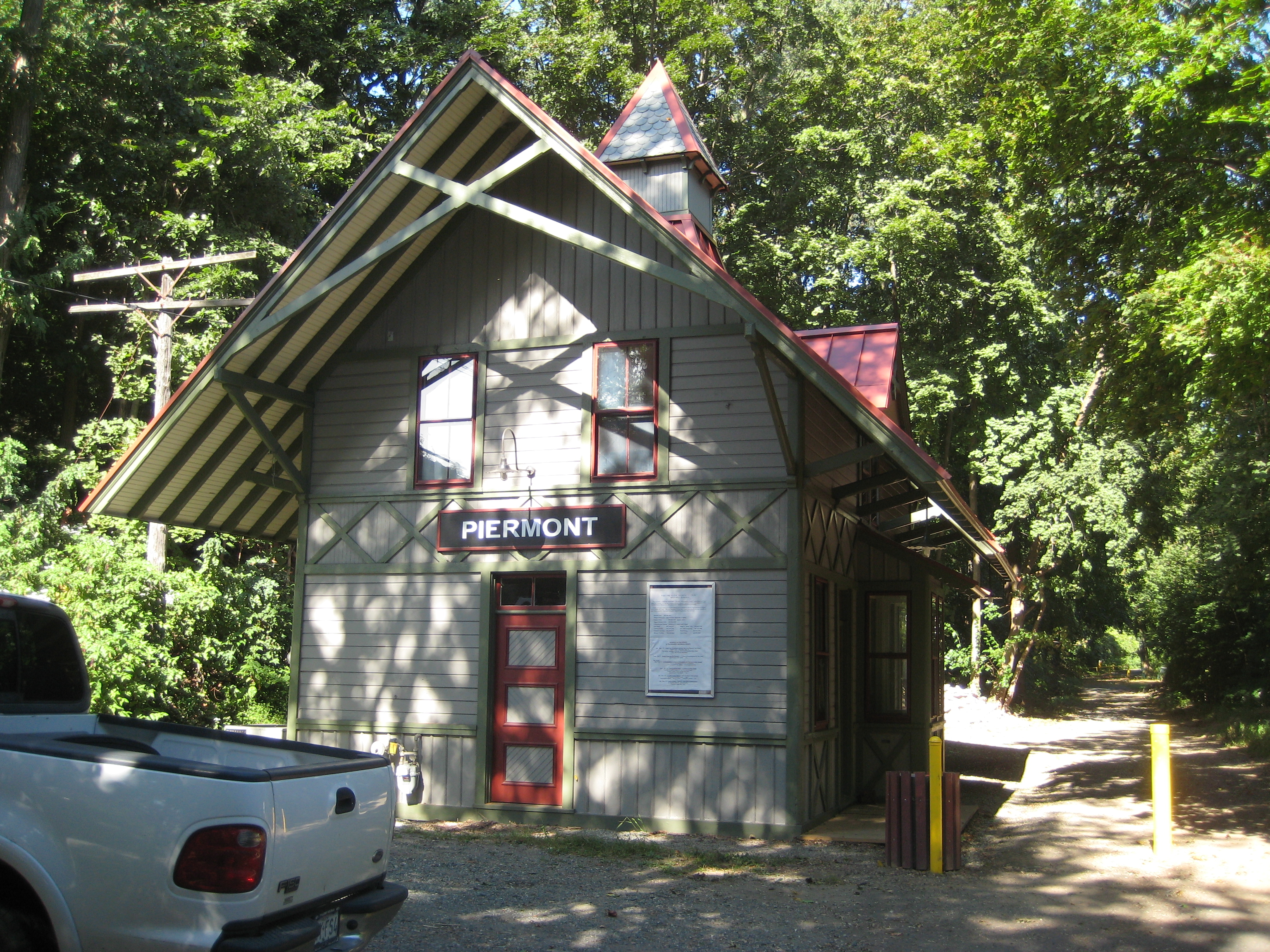 Piermont Railroad Station is a historic train station located at Piermont in Rockland County, New York. It was built about 1873 by the Northern Railroad of New Jersey, a predecessor of the Erie Railroad. It is a one and one half story, light frame building above a stone foundation. It features Stick Style exterior siding and a Late Victorian interior.[2]